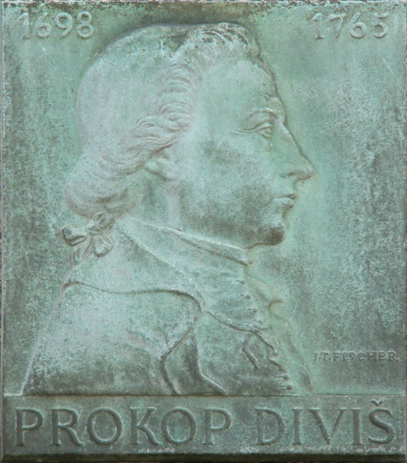 Memorial plaque of Czech scientist Prokop Diviš by Jan Tomáš Fischer (1912-1957) at former Jesuits grammar school building in Jezuitské náměstí square in Znojmo